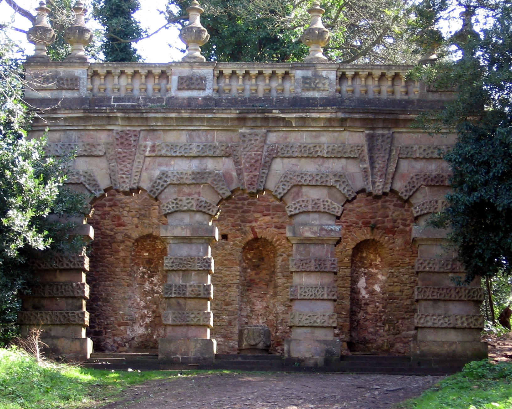 The Echo, a loggia at Kings Weston House in Bristol, UK.